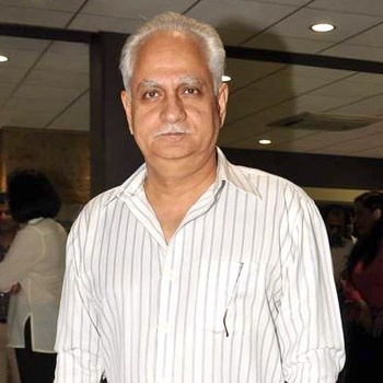 Ramesh Sippy at the curtain raiser of 14th Mumbai Film Festival, 2012